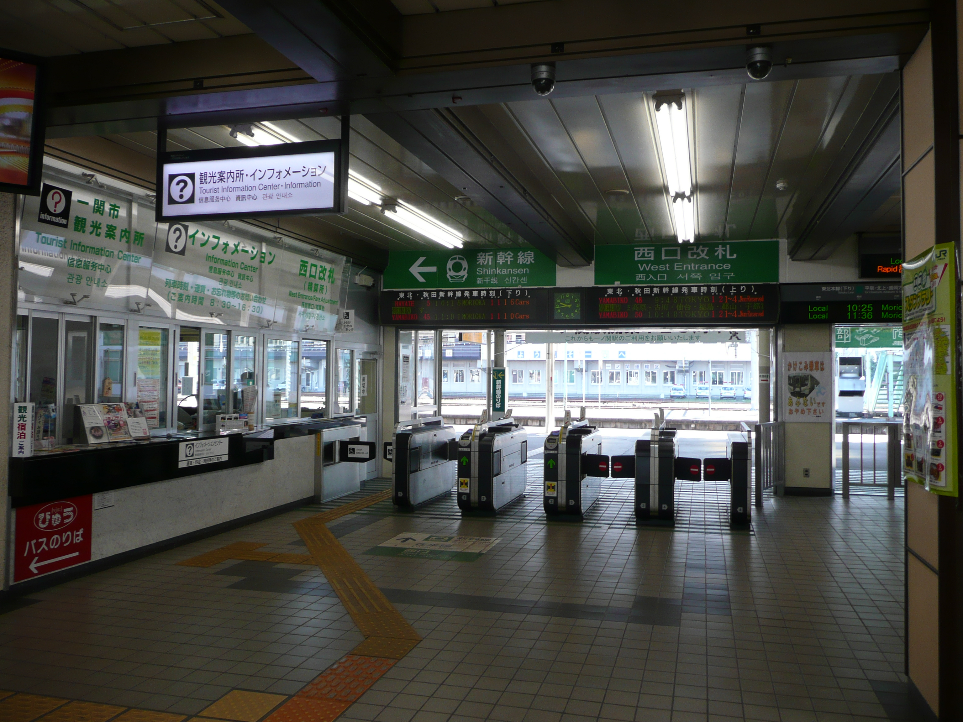 Ichinoseki Station west exit